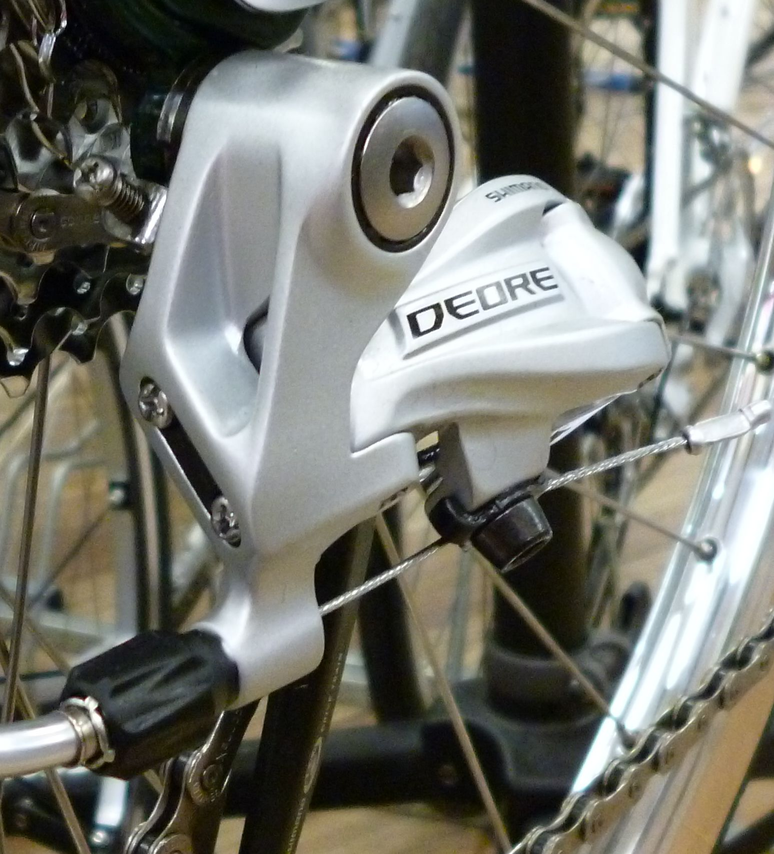 A photo of a Shimano Deore rear derailleur.